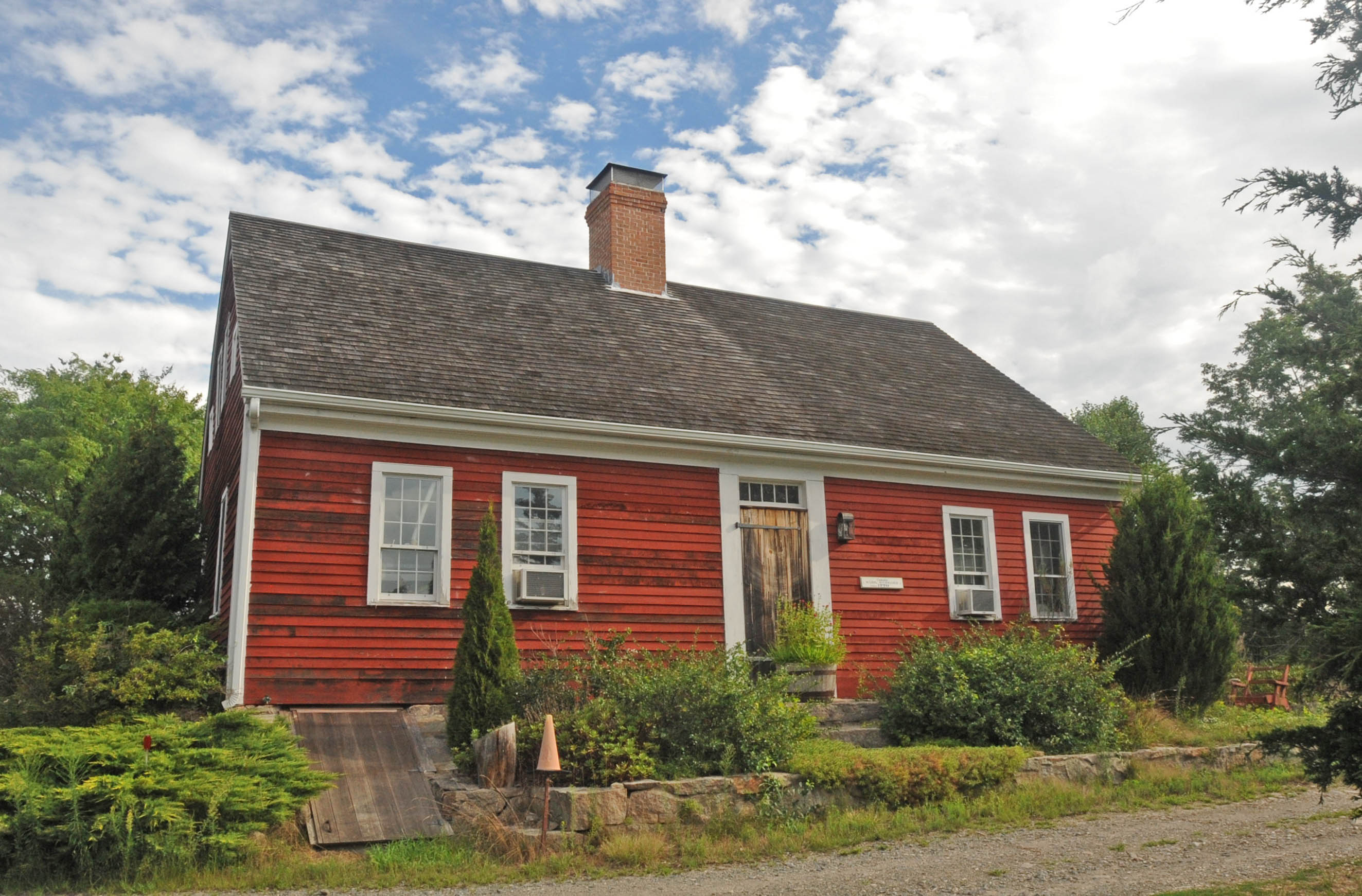 BUILT IN 1770. CAPT STODDARD WAS A REVOLUTIONARY WAR SOLDIER WHO FOUGHT AT BUNKER HILL. A LATER GRANDSON WAS SAILING MASTER ONB THE KEARSAGE IN ITS FAMOUS ENCOUNTER WITH THE ALABAMA IN THE CIVIL WAR